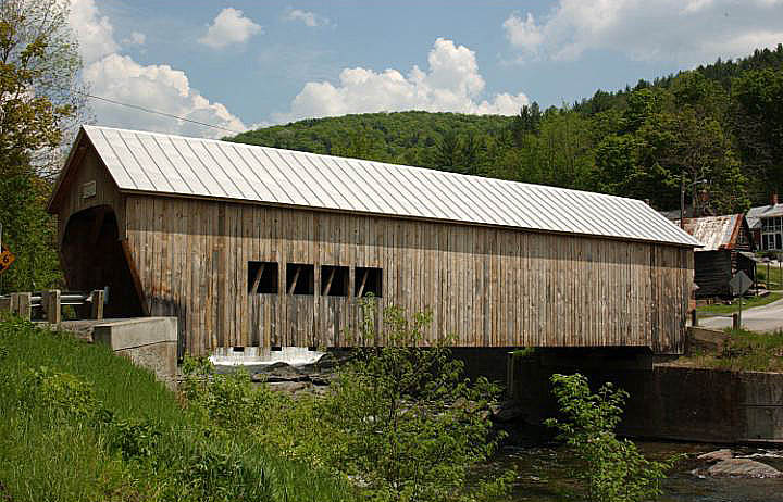 MILL COVERED BRIDGE AT TUNBRIDGE; 76’ MKING, 1883, OVER 1ST BRANCH OF WHITE RIVER